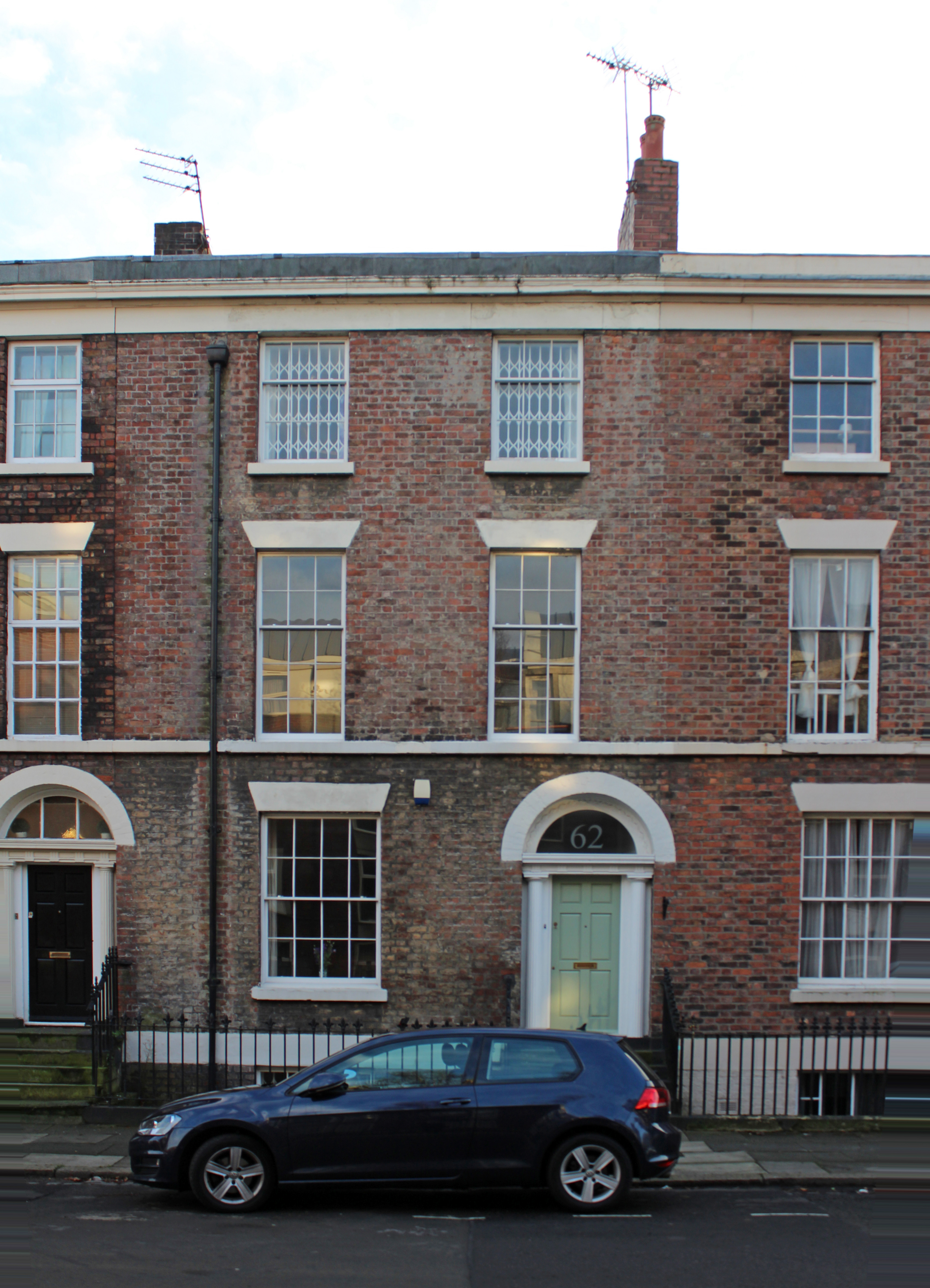 One of a pair of Grade Ii listed buildings in Falkner Street, Liverpool, featured in the 2018 BBC2 documentary "A House Through Time"